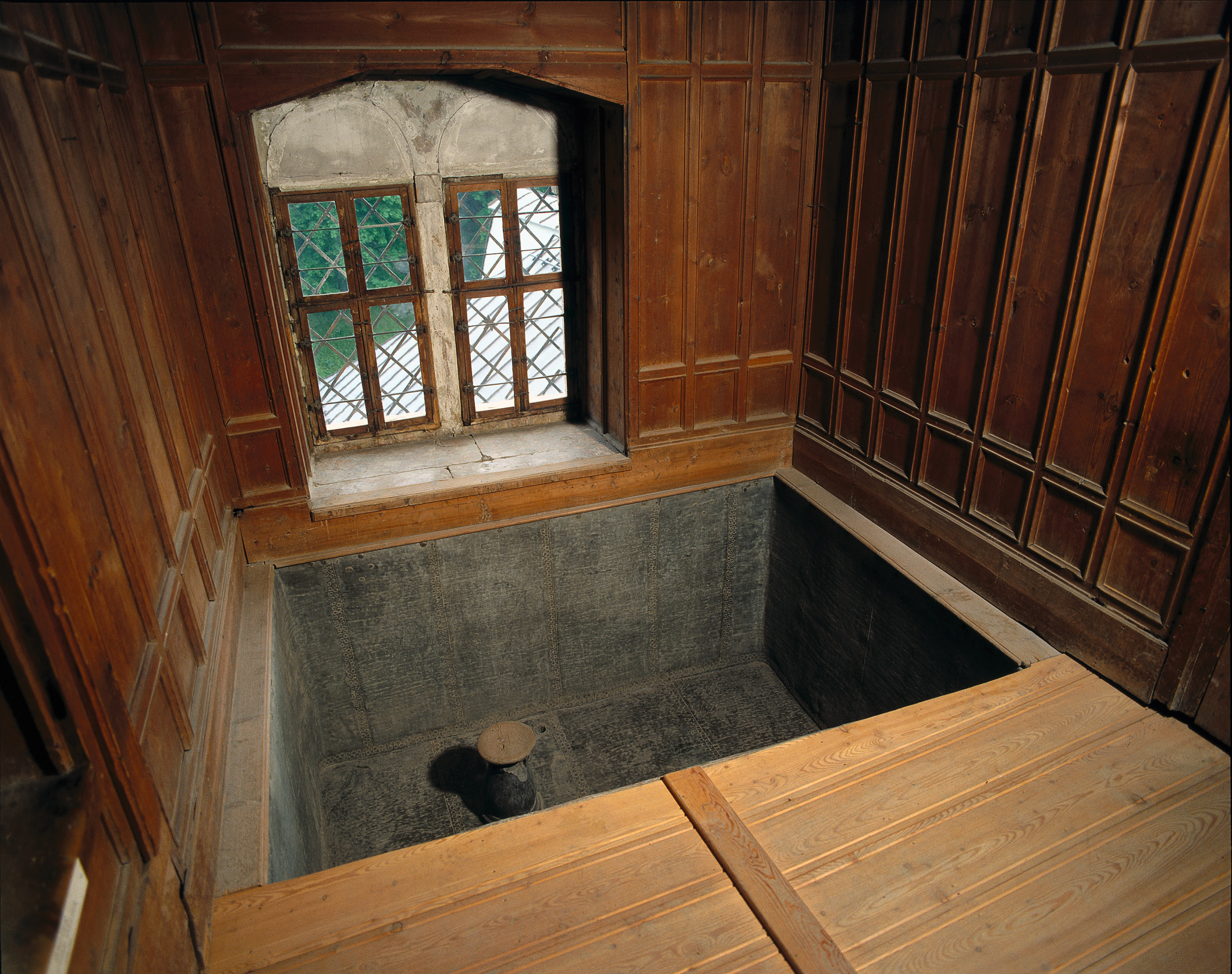 The bathtub of the bathing chambers of Philippine Welser